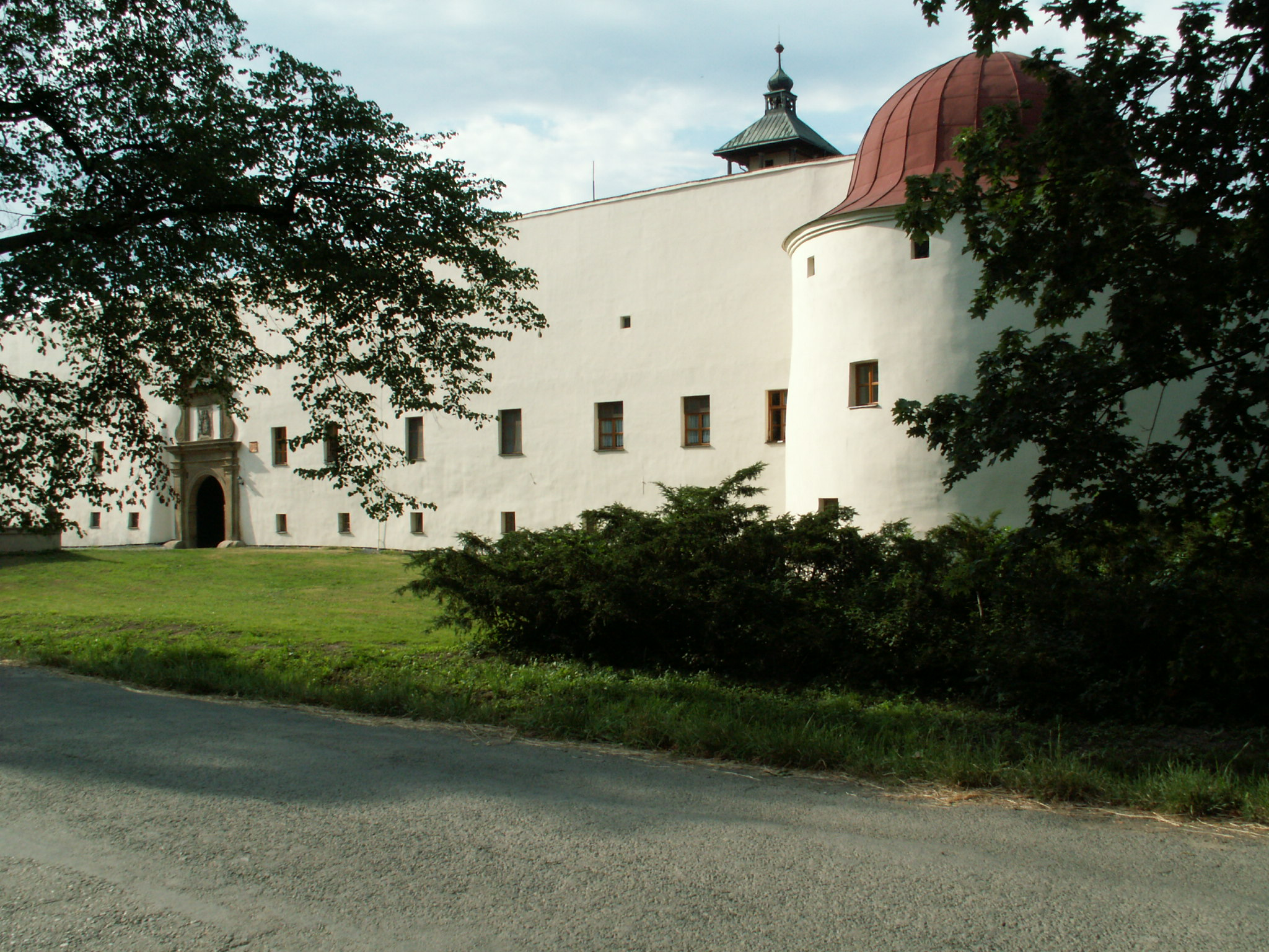 Castle in Dřevohostice (Czech Republic, Přerov District) - left bastion